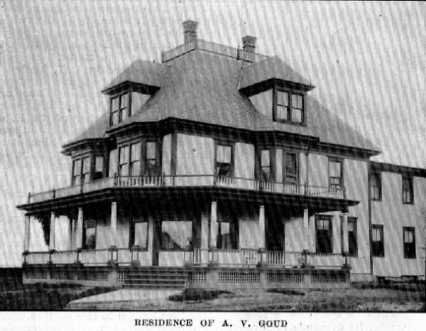 The former residence of A.V, Goud, listed on the National Register of Historic Places, is now the Gray Memorial United Methodist church's parsonage in Caribou, Maine.